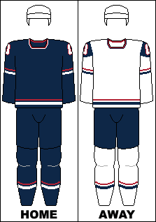 The home and away jerseys of the U.S. ice hockey team used at the IIHF World Championships, without the logo of USA Hockey.